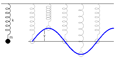 Undampened mass whith spring harmonic oscillator. 2006